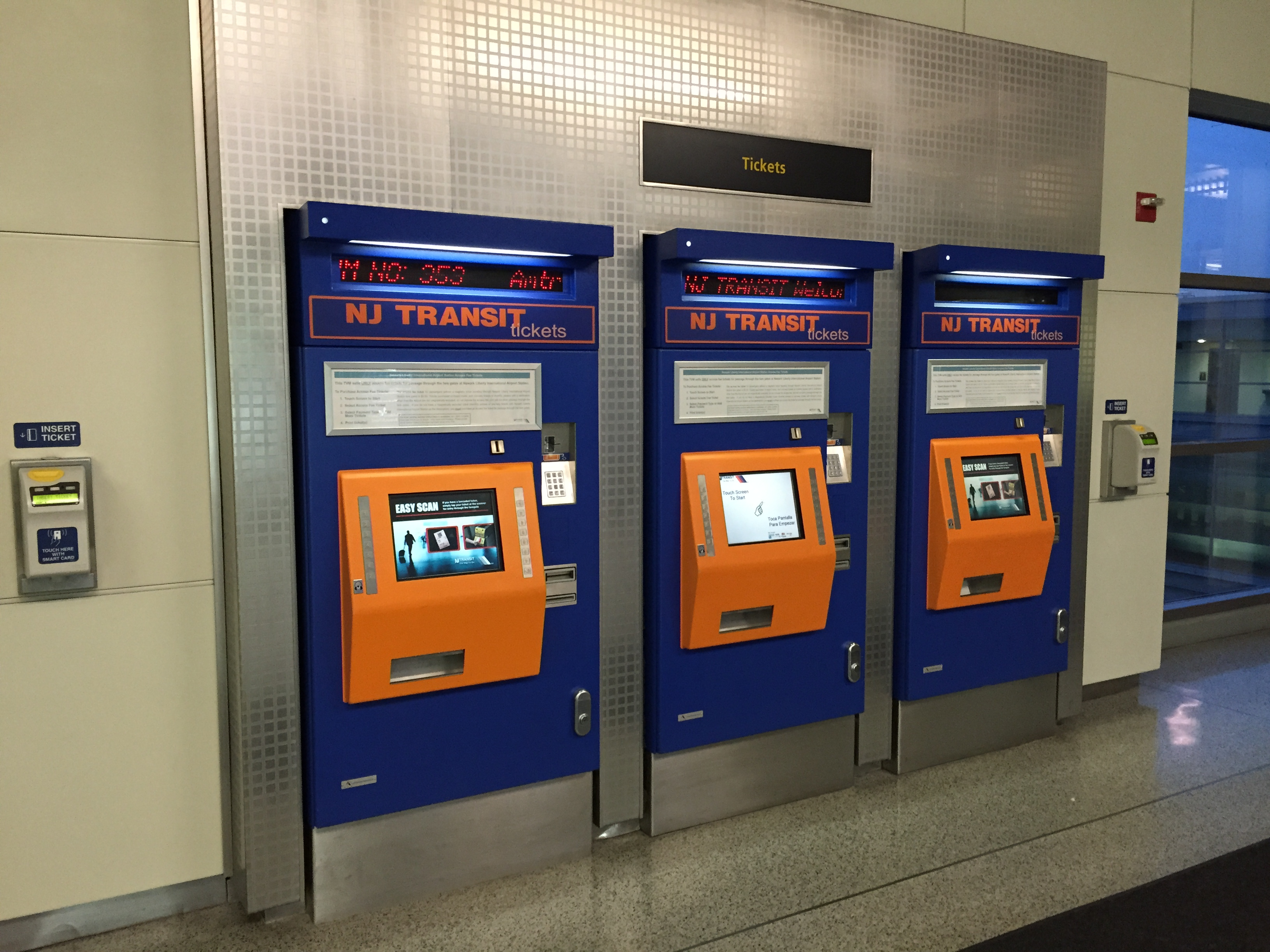 Automated ticket machines at the Newark Liberty International Airport Train Station, New Jersey